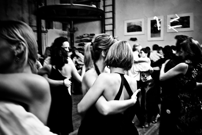 Tango dancers at "El Corte".